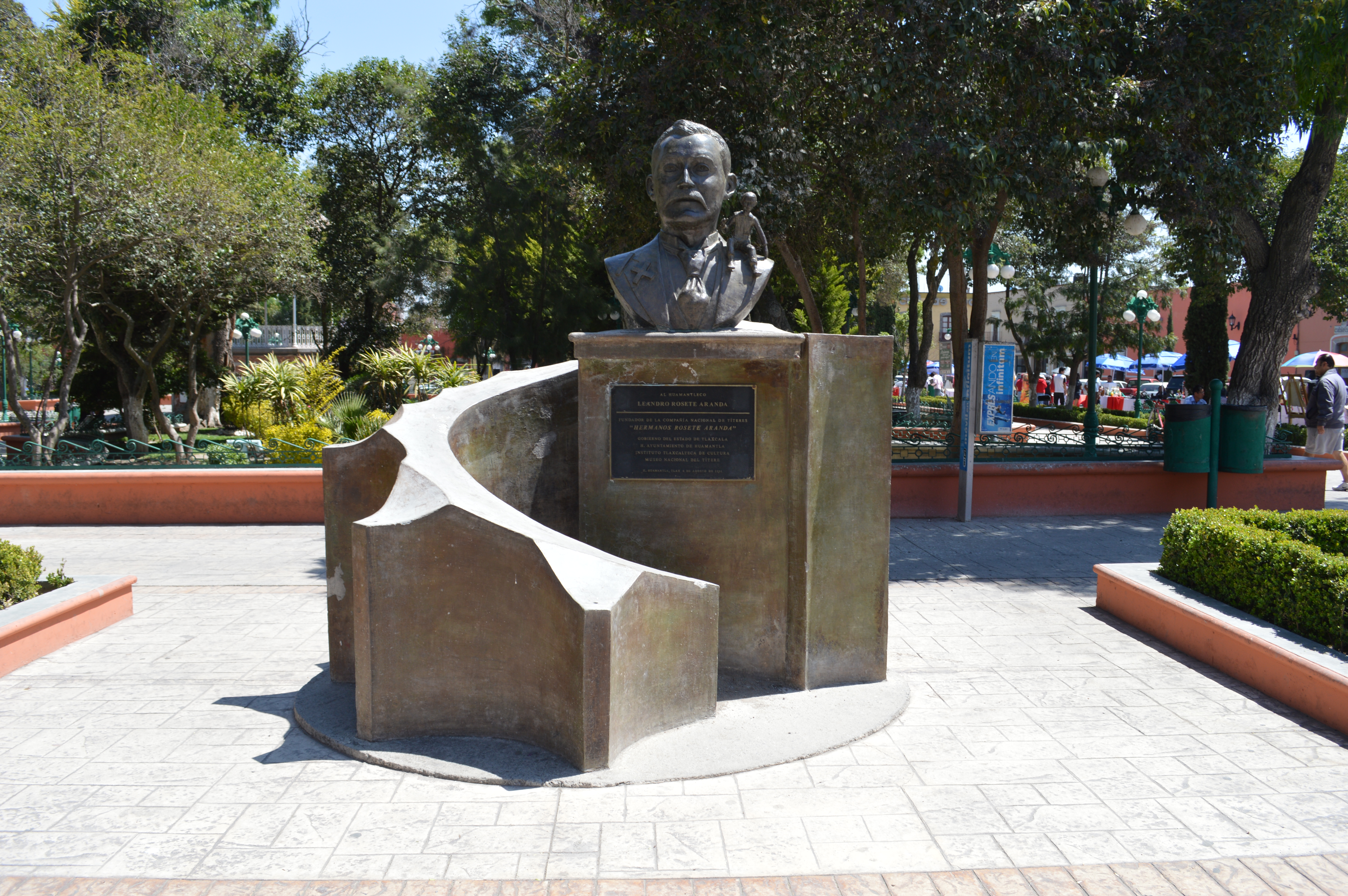 Bust of puppeteer Leandro Rosete Aranda in Parque Juarez in Huamantla, Tlaxcala, Mexico